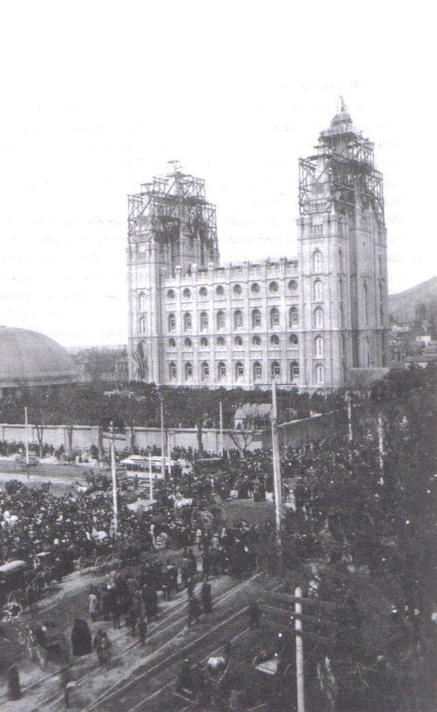 The Salt Lake Temple of The Church of Jesus Christ of Latter-day Saints.